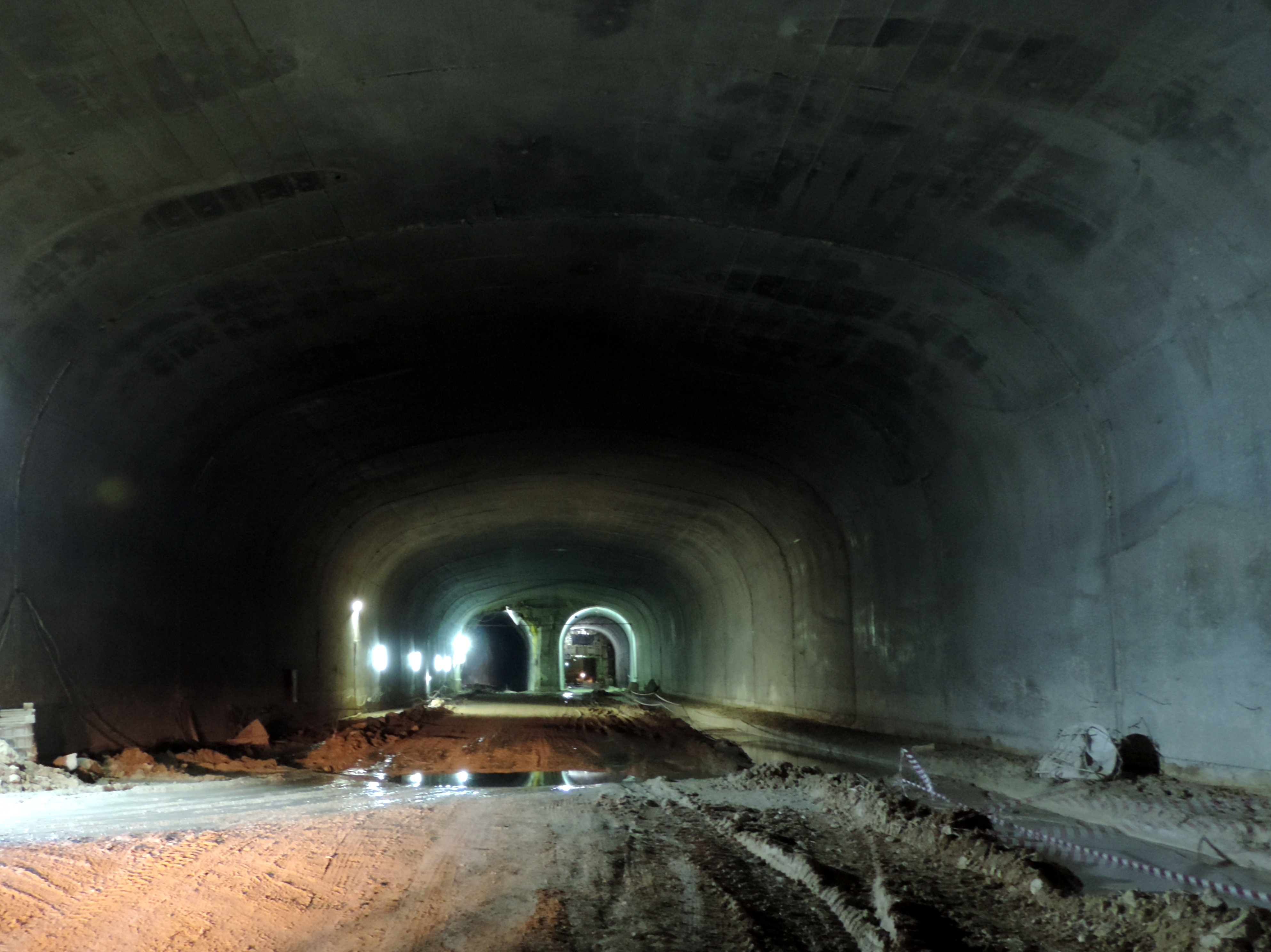 Trains entrance to the Binyaney HaUma Station in tunnel no. 4.